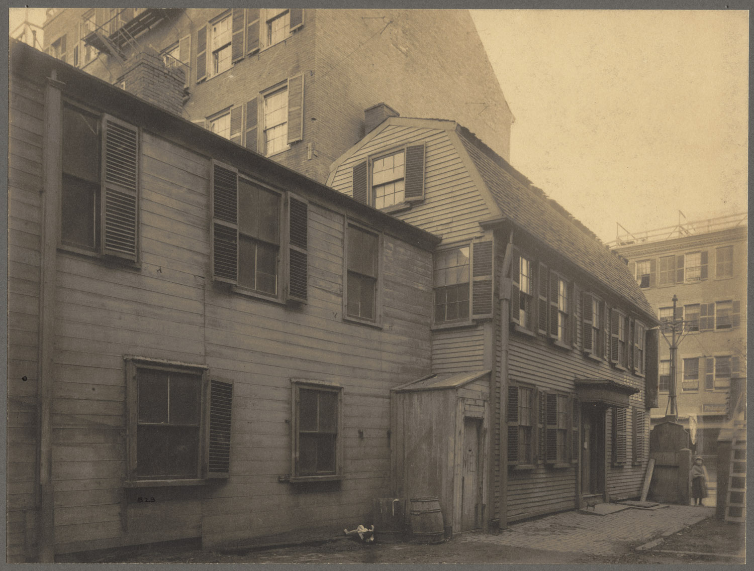 The House of General Crane, rear. 1898 (approximate). Photograph. On Tremont Street, opposite of Hollis Street, Boston MA.